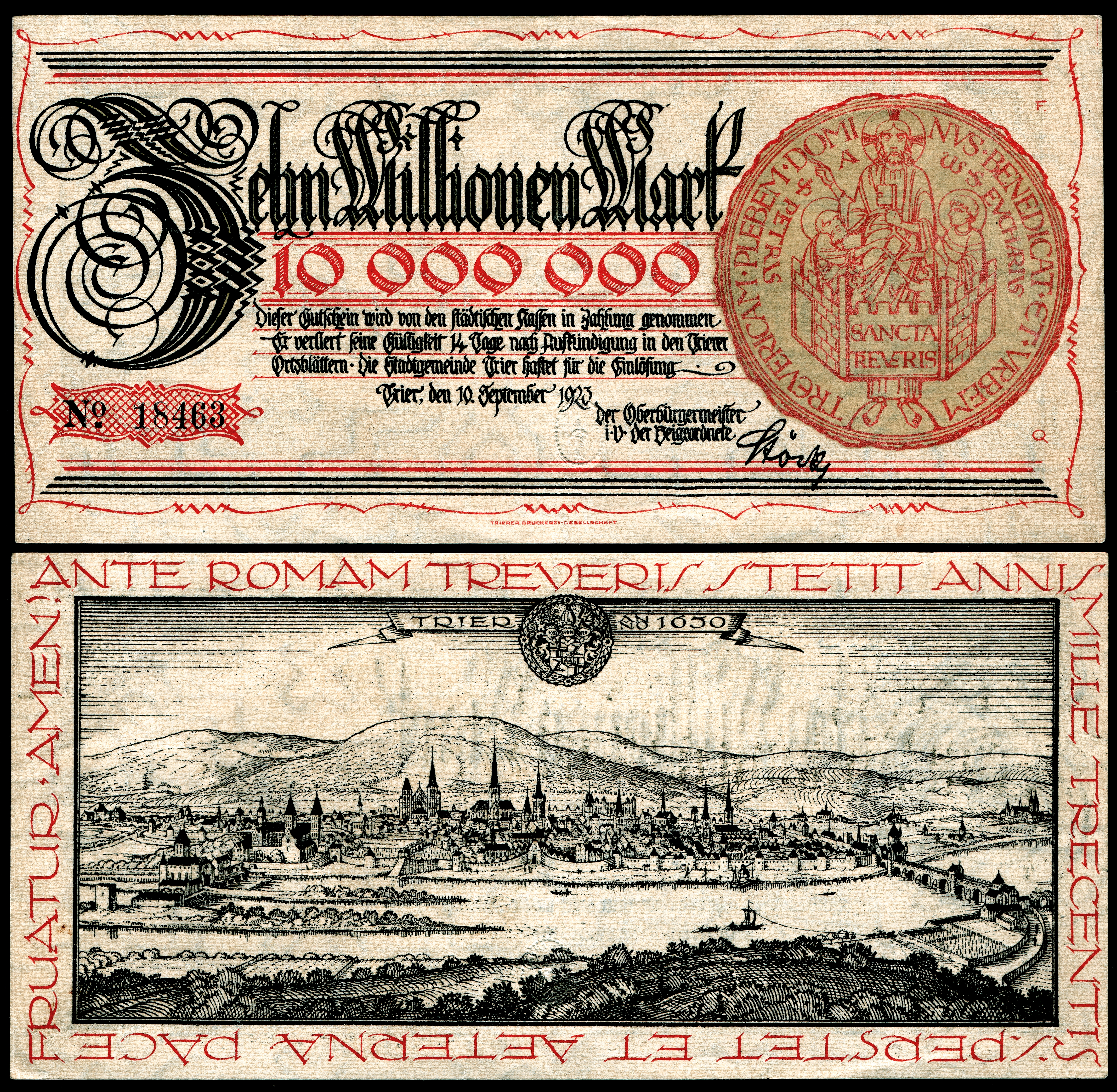 "Notgeld" banknote (emergency money): Ten Million Mark from Trier, Germany (1923), designed by Fritz Quant (signed: F/Q), view of Trier after a copperplate print by Matthäus Merian (1646), size: 19.5 cm x 9.5 cm.